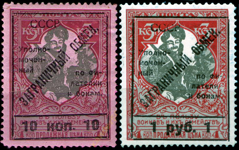 USSR. Stamp of control gathering on a foreign exchange, 1925